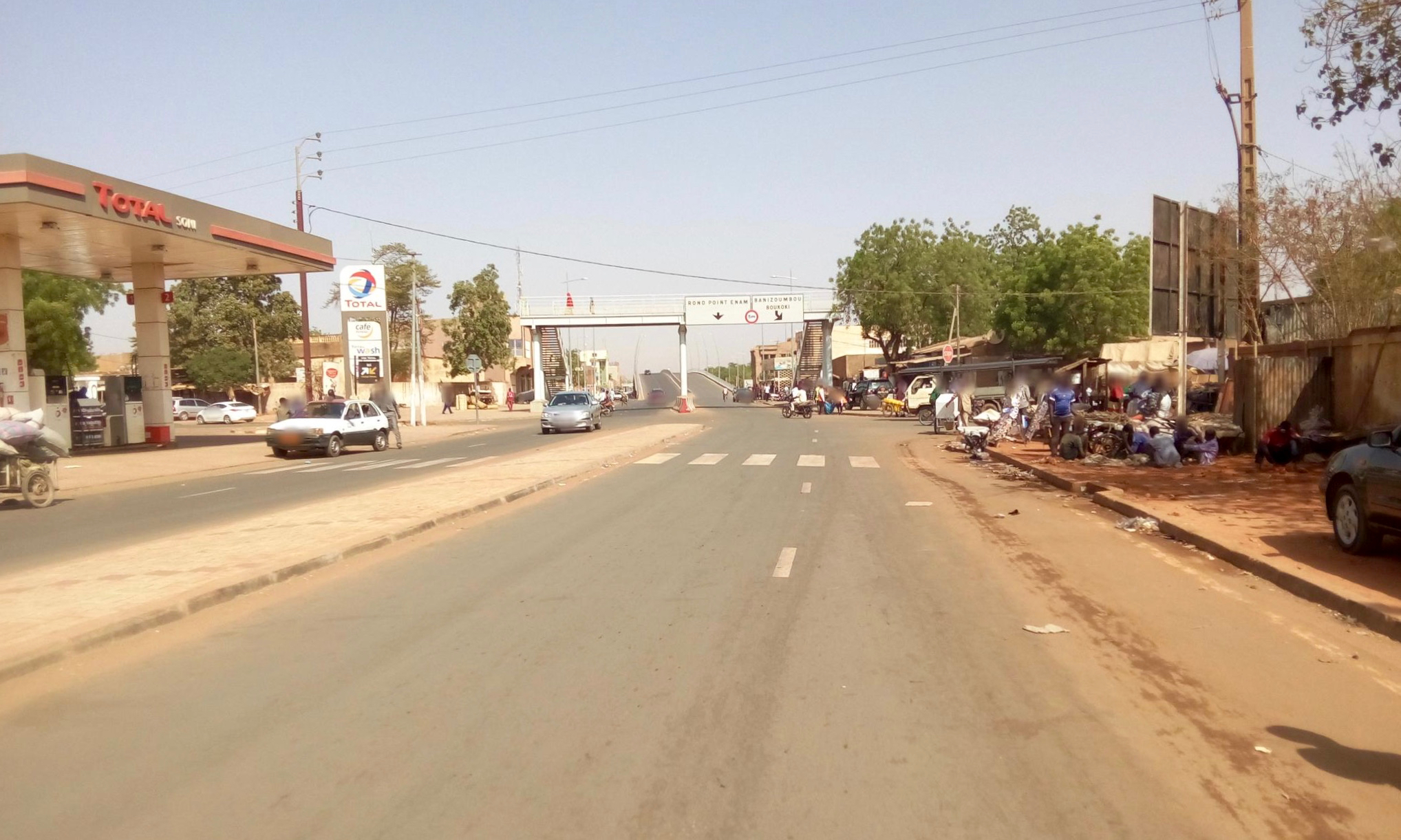 Avenue Soni Ali Ber in Abidjan (Kalley Nord), Niamey.